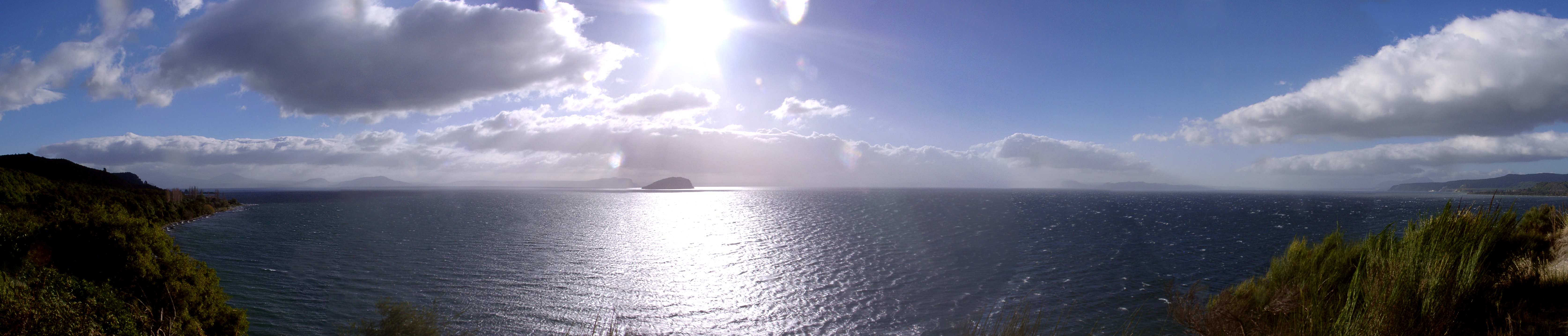 Panorama of Lake Taupo, North Island, New Zealand